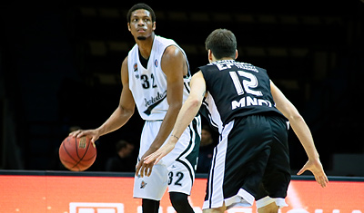 Jeff Brooks playing for Avtodor Saratov